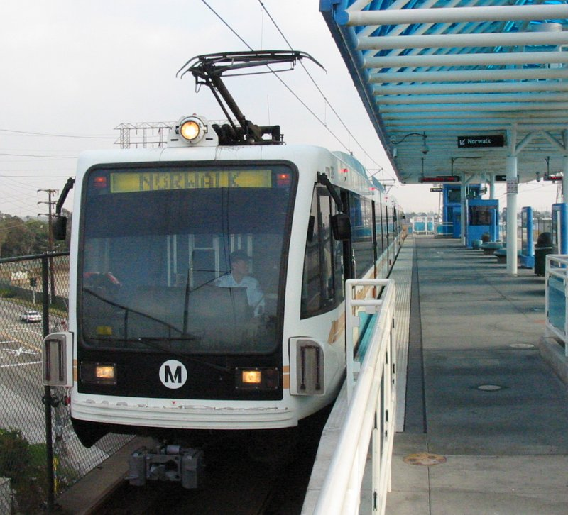 A train of the Los Angeles Metro's Green Line about to depart the Redondo station